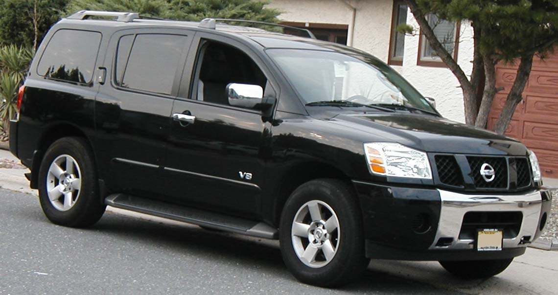 2004-2006 Nissan Armada photographed in USA.